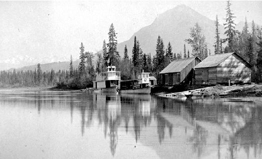 Duchess and Marion, sternwheel steamboats, at northern end of Columbia Lake, in British Columbia, 1890s